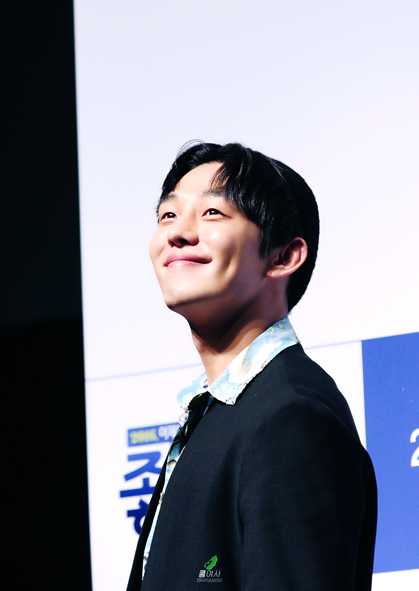 Yoo Ah In attended at Guest Visit (GV)